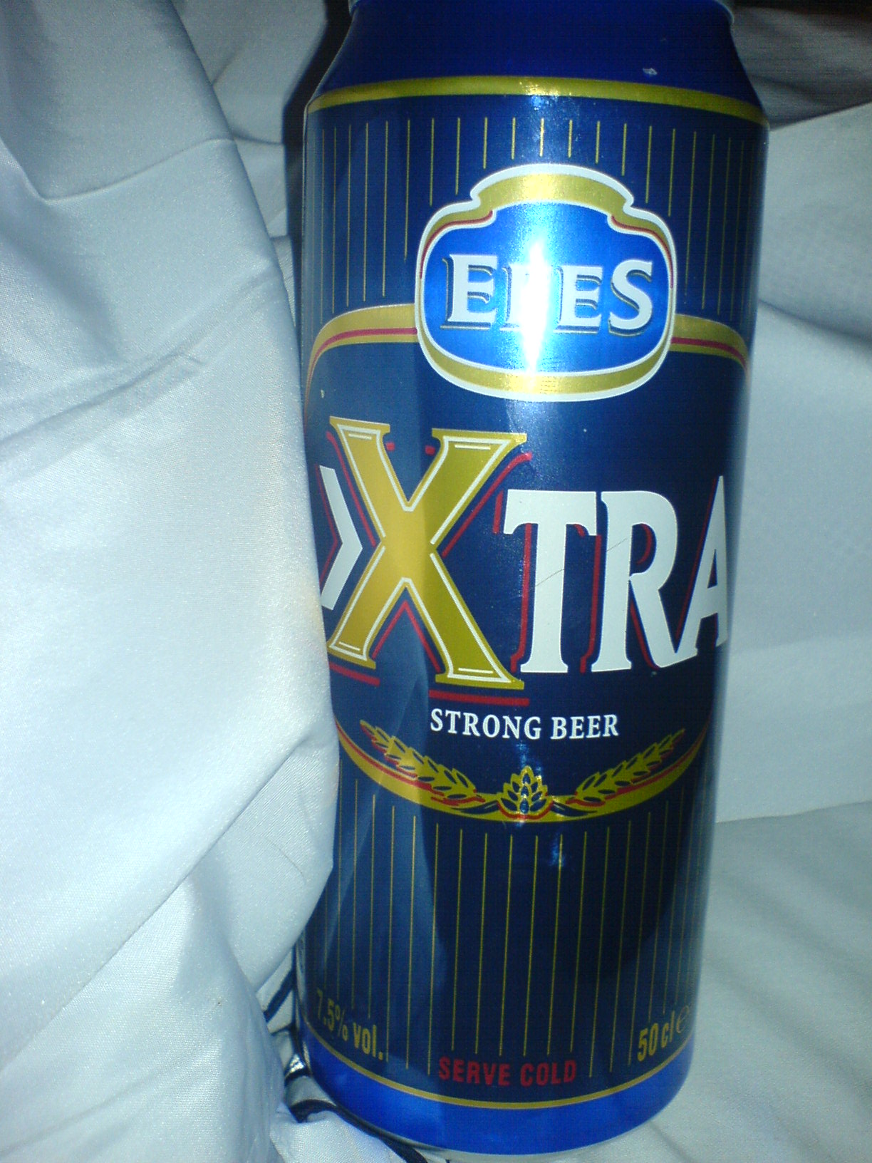 Photo by User:Hessam, Ankara, Turkey